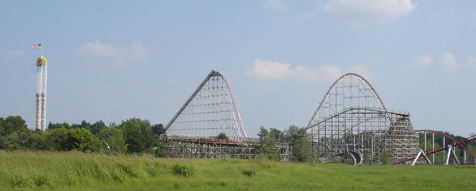 Timber Wolf at Worlds of Fun, Kansas City. The Detonator towers to the left, and Mamba overlooking from behind.